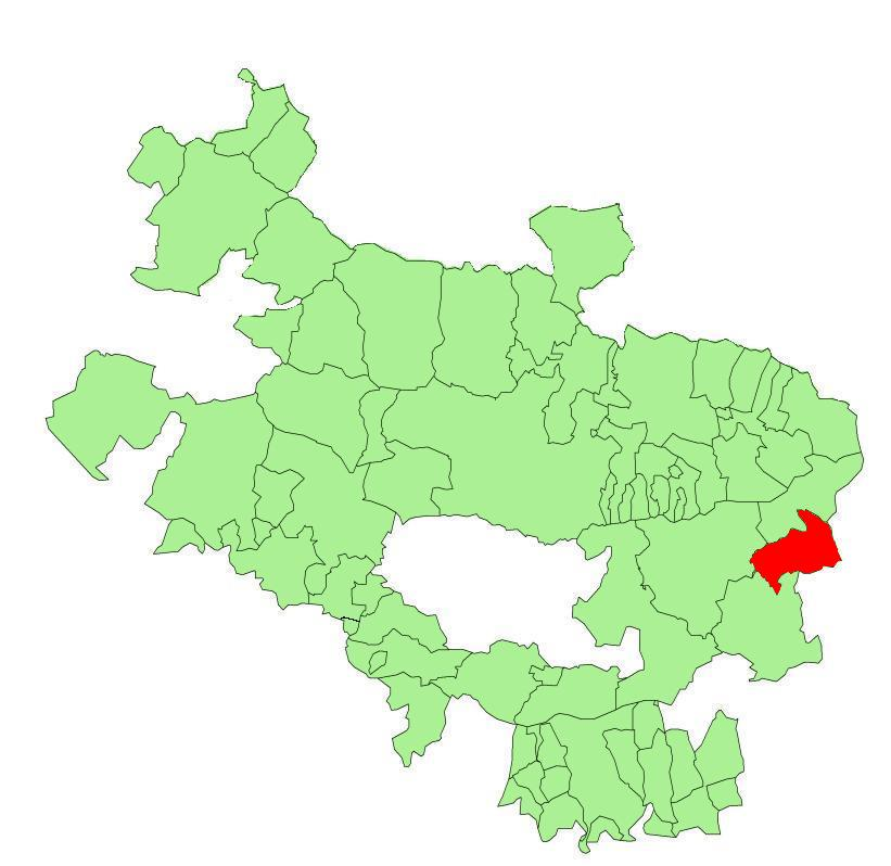 Harana/Valle de Arana municipality in the province of Alava